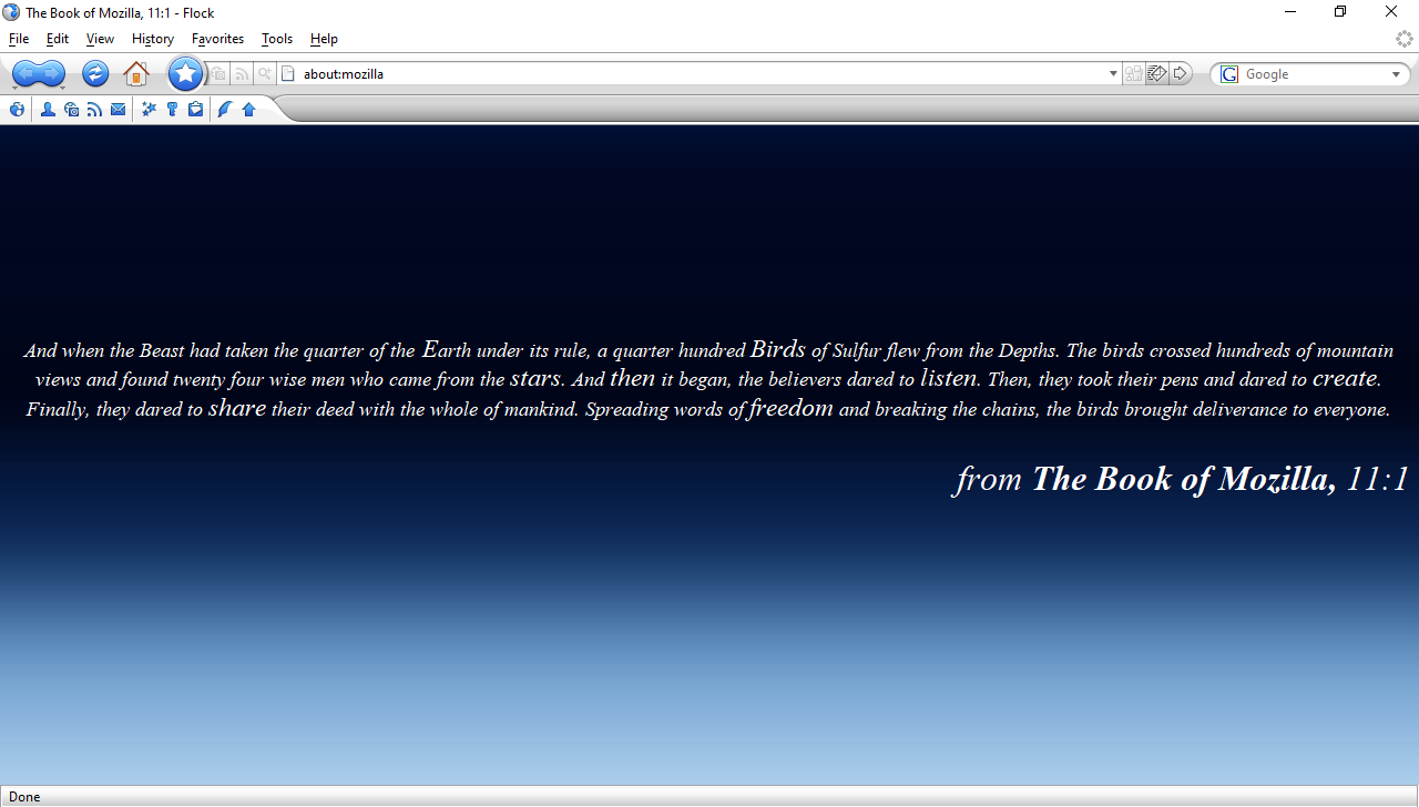 About:mozilla page for Flock 1.2a2pre (Sufur)